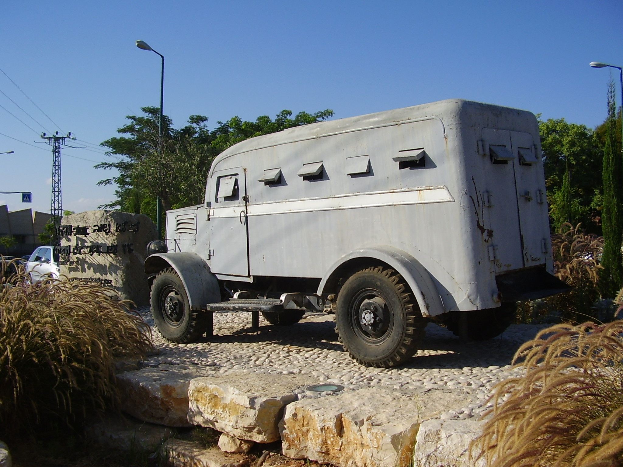 armoured vehicle from the independence war in mazkeret batya